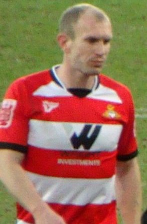 30/01/10 Cardiff V Doncaster, Championship, Cardiff City Stadium, Cardiff, Wales